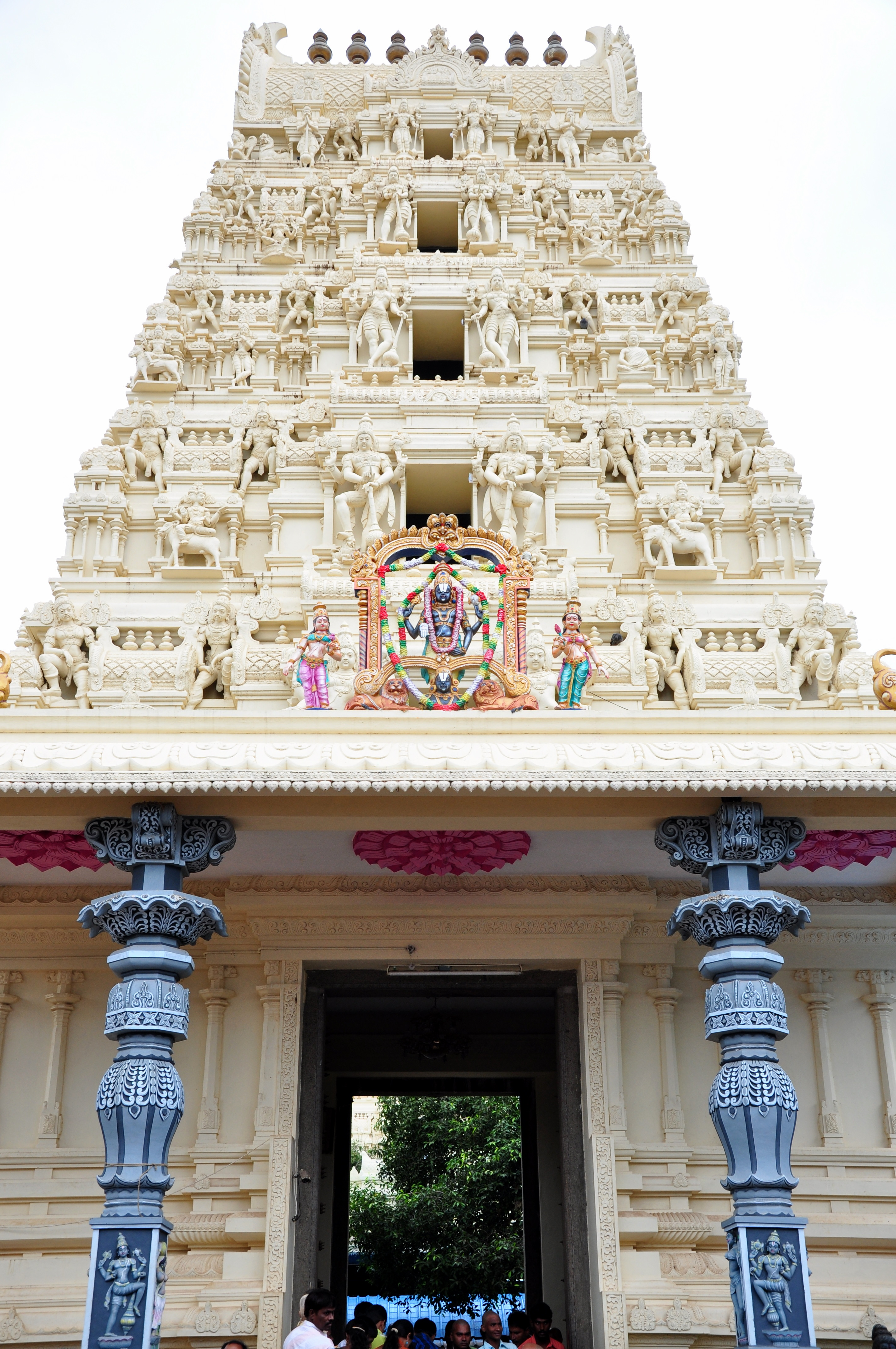 Dwaraka Thirumala Gopuram